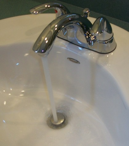 The faucet or tap in a bathroom sink lets users mix both hot and cold water. It is attached to the underside of a sink by plastic screws. Source: here entitled "Swapping out a bathroom sink" (handyman project) (note: "public domain" note at top of article). Further questions, ask me (tom sulcer) at: Wikipedia. here.